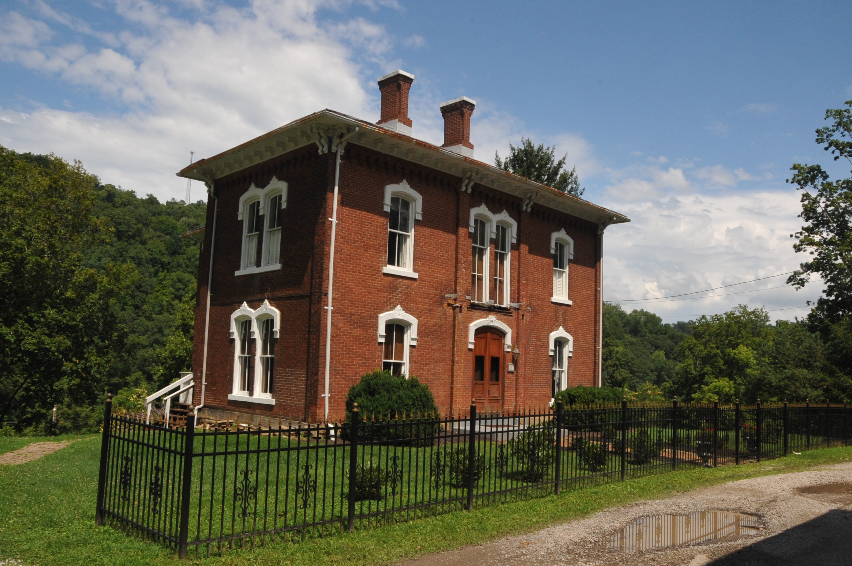 1877 VICTORIAN ITALIANATE